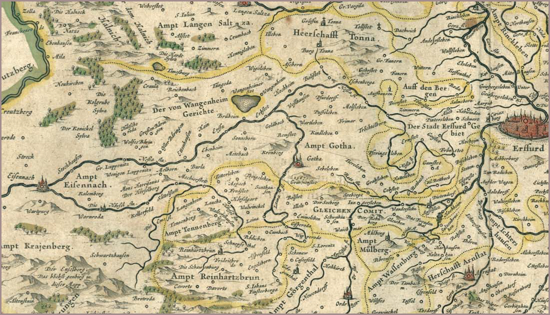 Fragment of: Thuringia Landgraviatus (Landgravate of Thuringia.) from "Theatrum Orbis Terrarum, sive Atlas Novus in quo Tabulæ et Descriptiones Omnium Regionum, Editæ a Guiljel et Ioanne Blaeu" (Theater of the World, or a New Atlas of Maps and Representations of All Regions, Edited by Willem and Joan Blaeu), 1645.